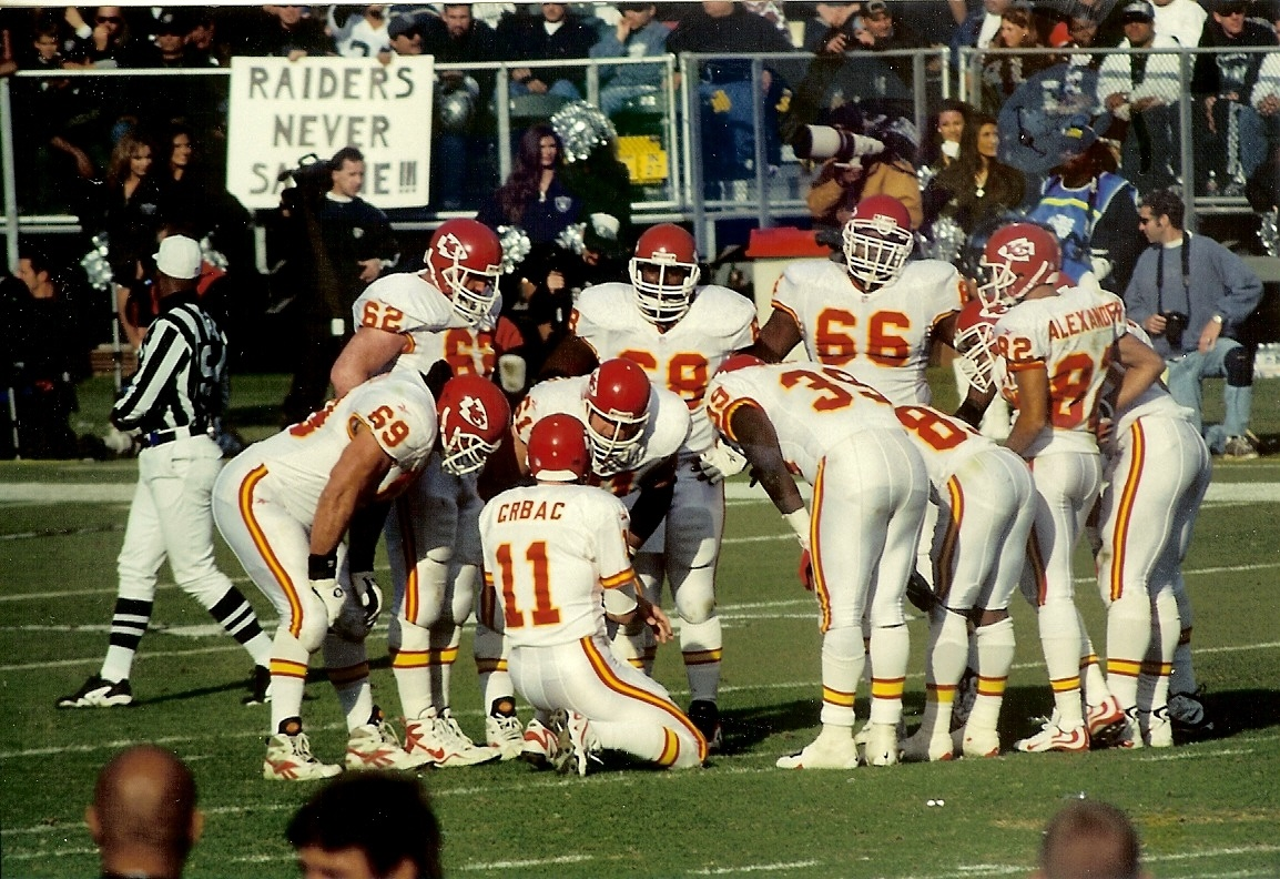 Kansas City Chiefs in huddle.